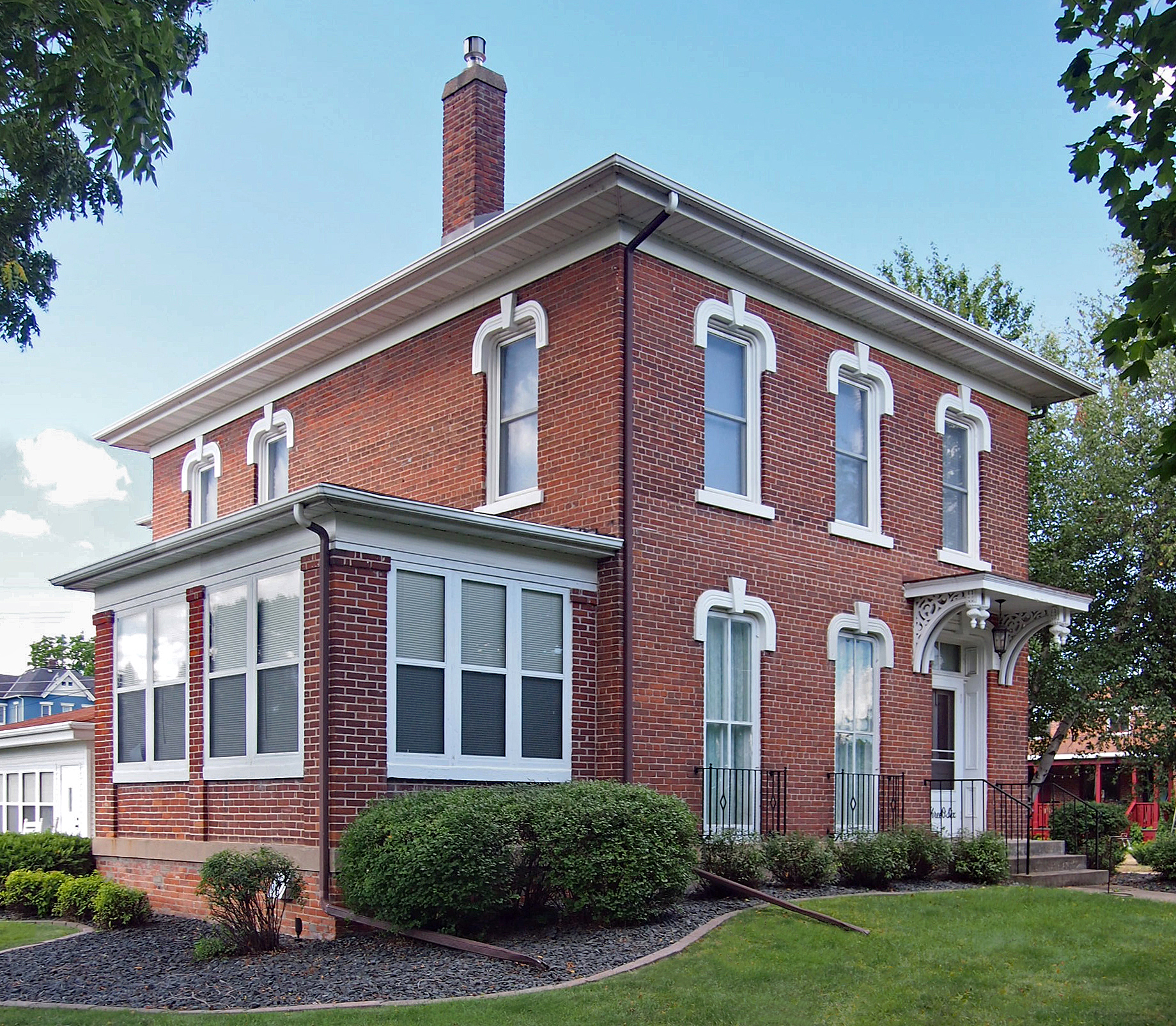 Lucas Kuehn House, 306 E Main St, Wabasha, Minnesota, USA. Viewed from the northeast.